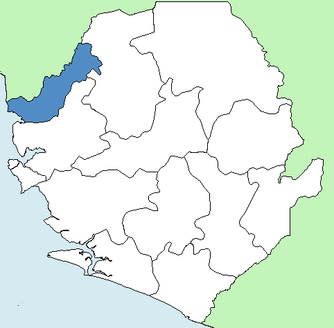 Map showing location of Kambia District in Sierra Leone